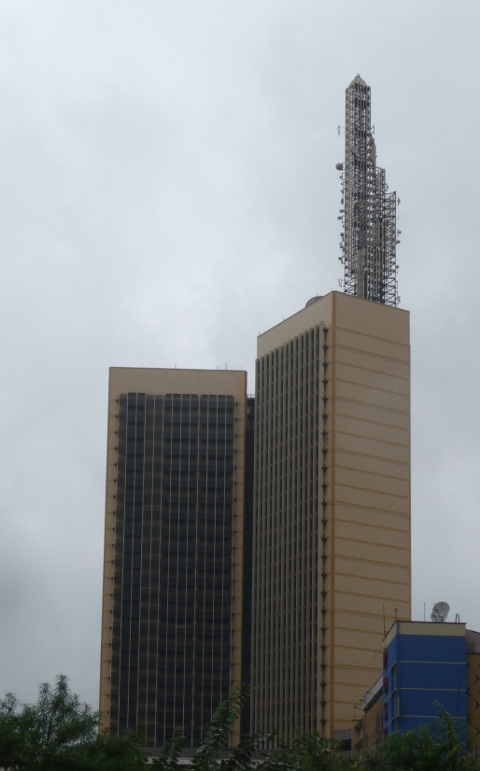 Teleposta Towers, Nairobi